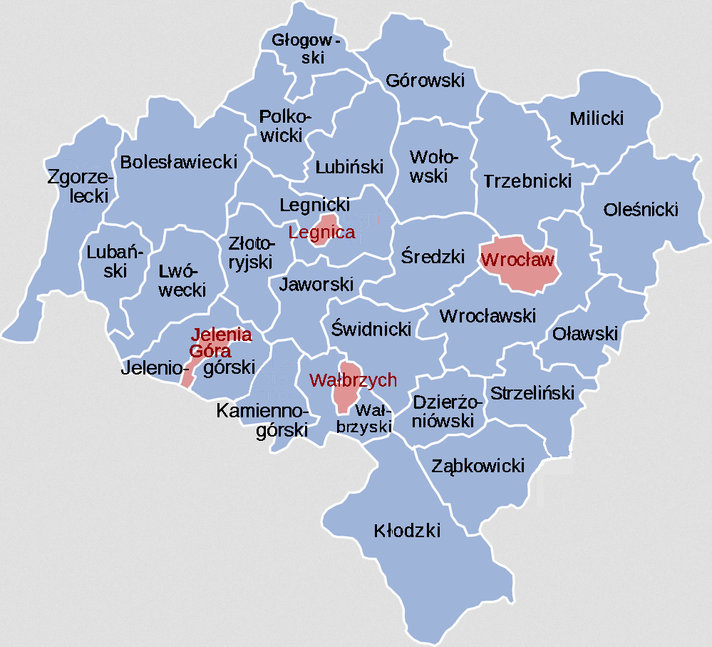 Map of Lower Silesian voivodeship (Województwo dolnośląskie) in Poland divided into powiats (counties